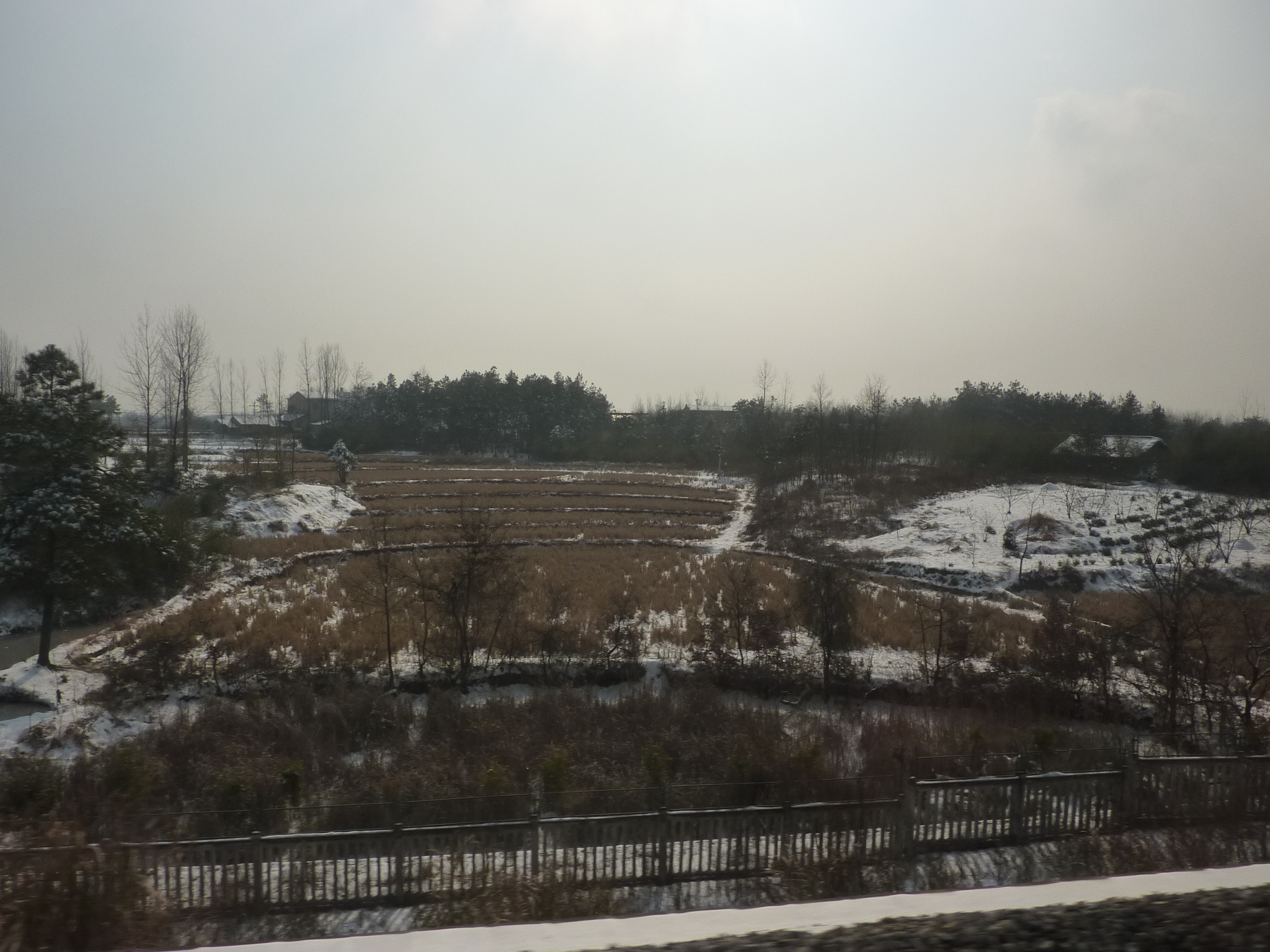 Farmers' fields, partly covered by snow, on the flatland (east of the Dabie Mountains) between Jinzhai County seat and Lu'an City center, in Anhui Priovince. This may be within Jinzhai County or one of the centrak qu (districts) of Lu'an. Seen form a train running on the Hewu (Henan-Wuhan) Railway.